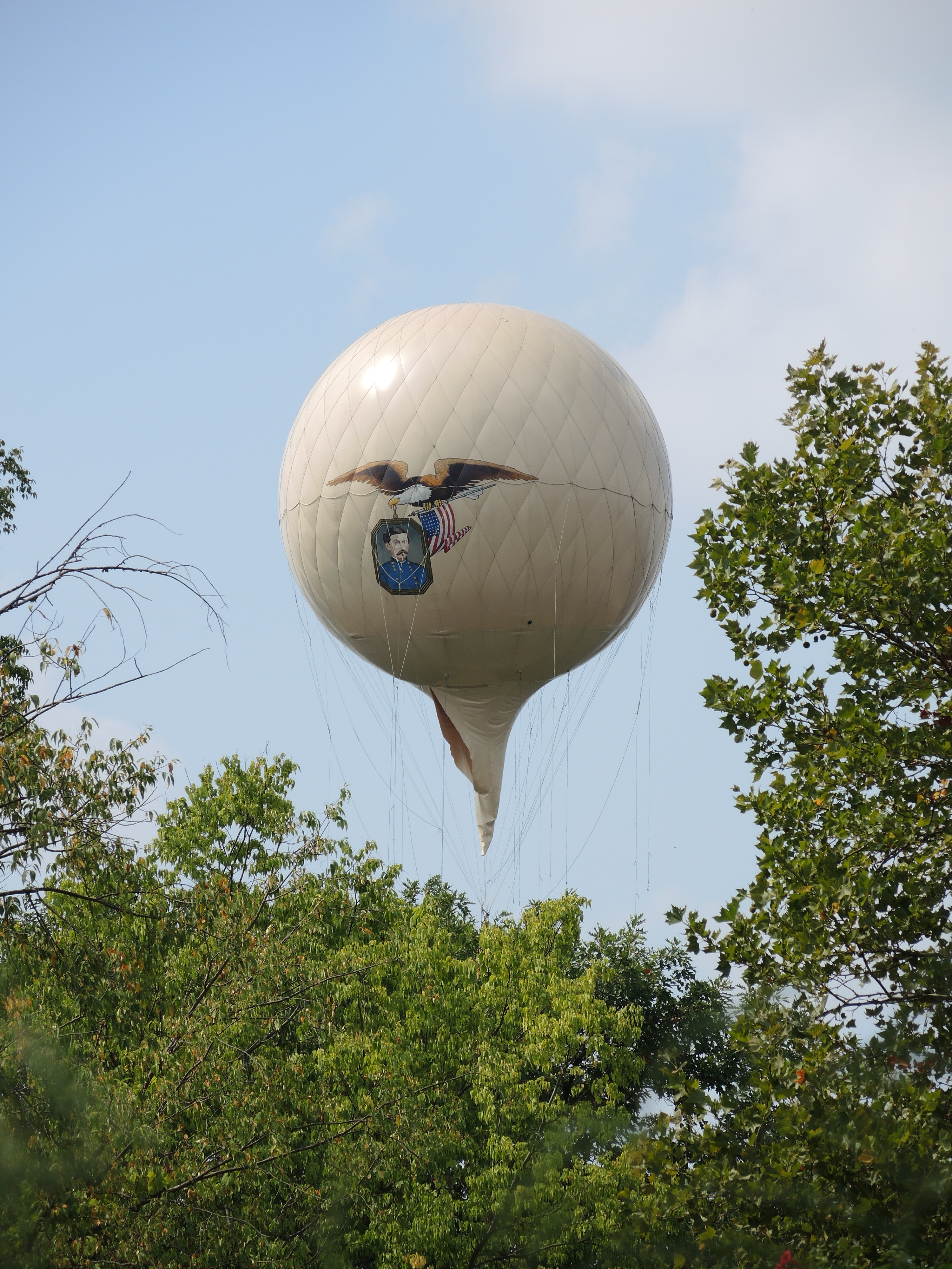 The "Intrepid", a replica military observation balloon of the Union Army Balloon Corps at Genesee Country Village and Museum.